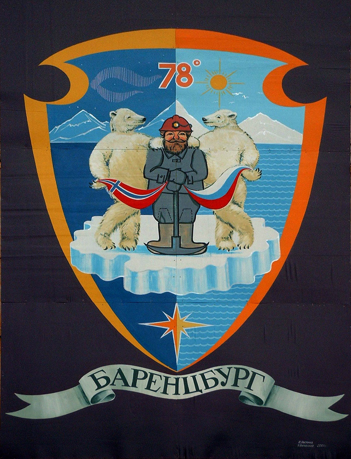 Barentsburg Crest photo by user